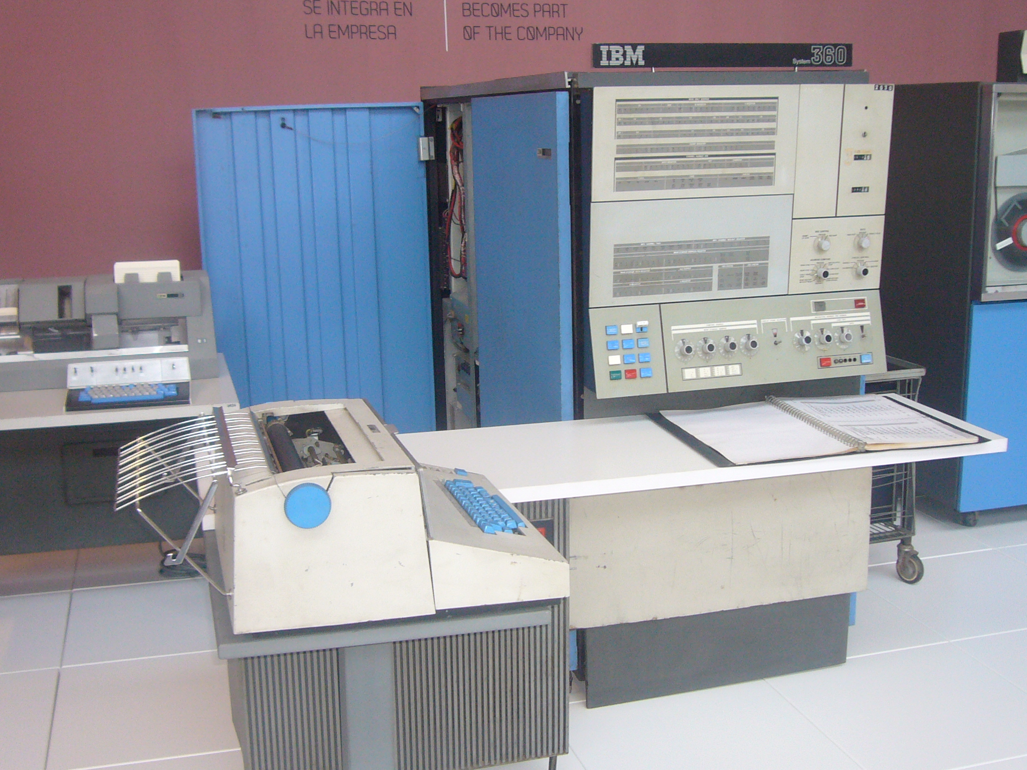 IBM system 360 - mnactec